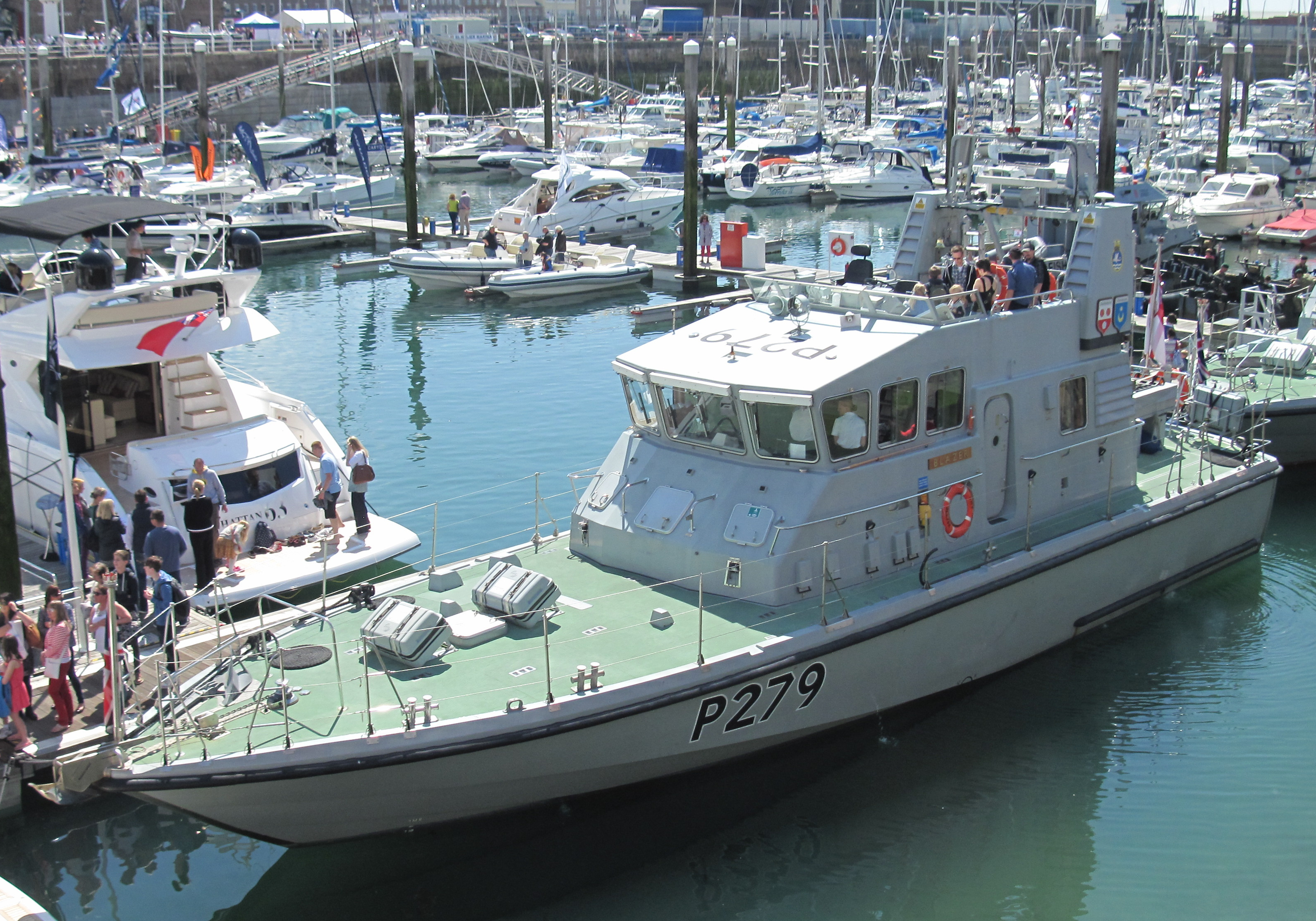 Jersey Boat Show 2013